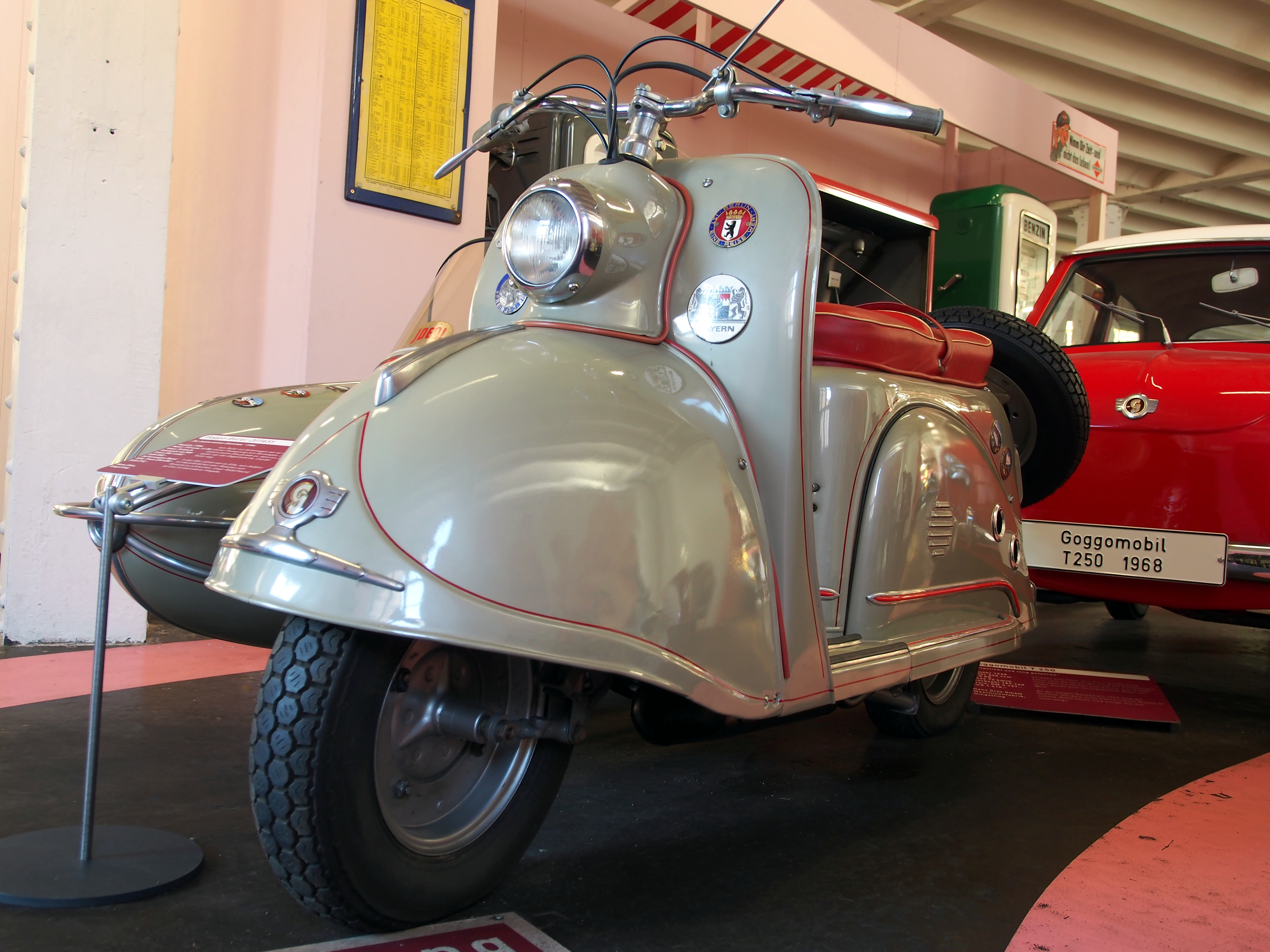 Photographed at the Auto & Uhrenwelt Schramberg, Germany.